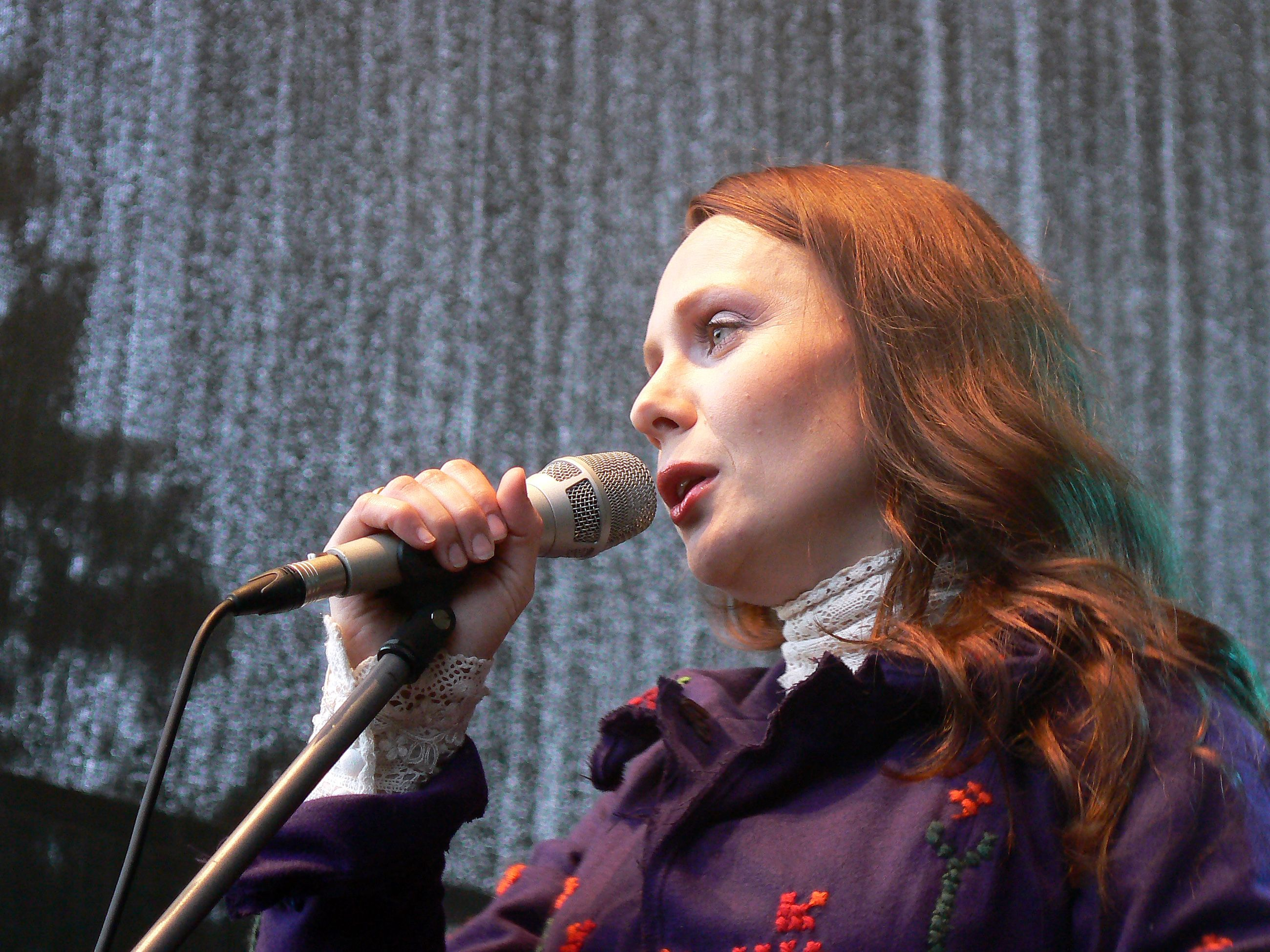 Aistė Smilgevičiūtė at "Kilkim žaibu XII" festival.